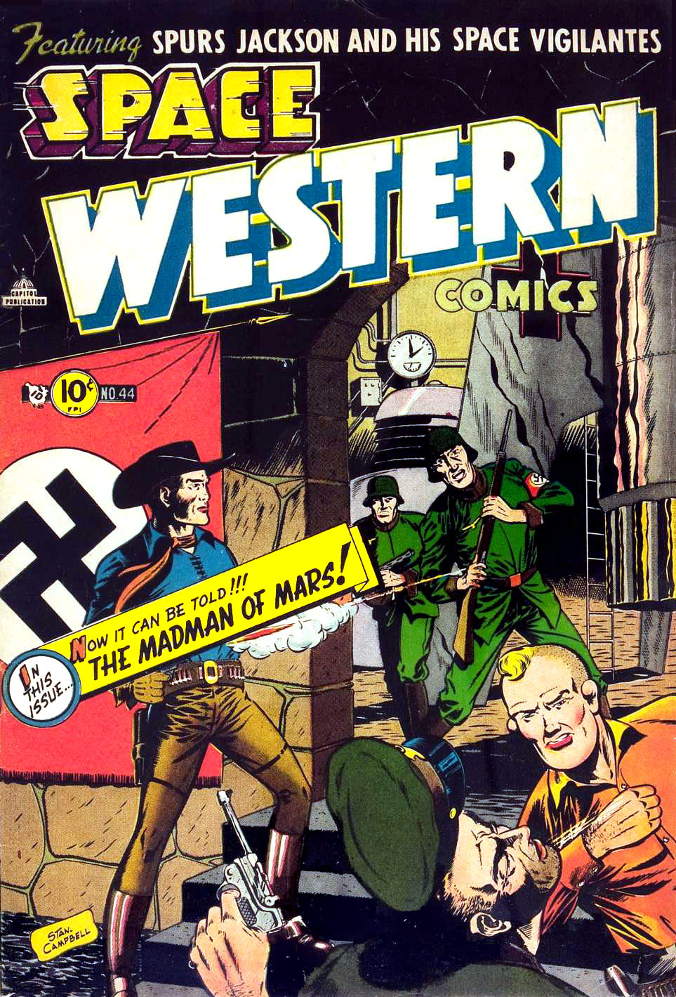 Space-faring cowboys duke it out with interplanetary Nazis on the planet Mars! What more could anyone ask for in a comic book cover? From Space Western number 44, Charlton Comics, June 1953. Artwork by Stan Campbell.